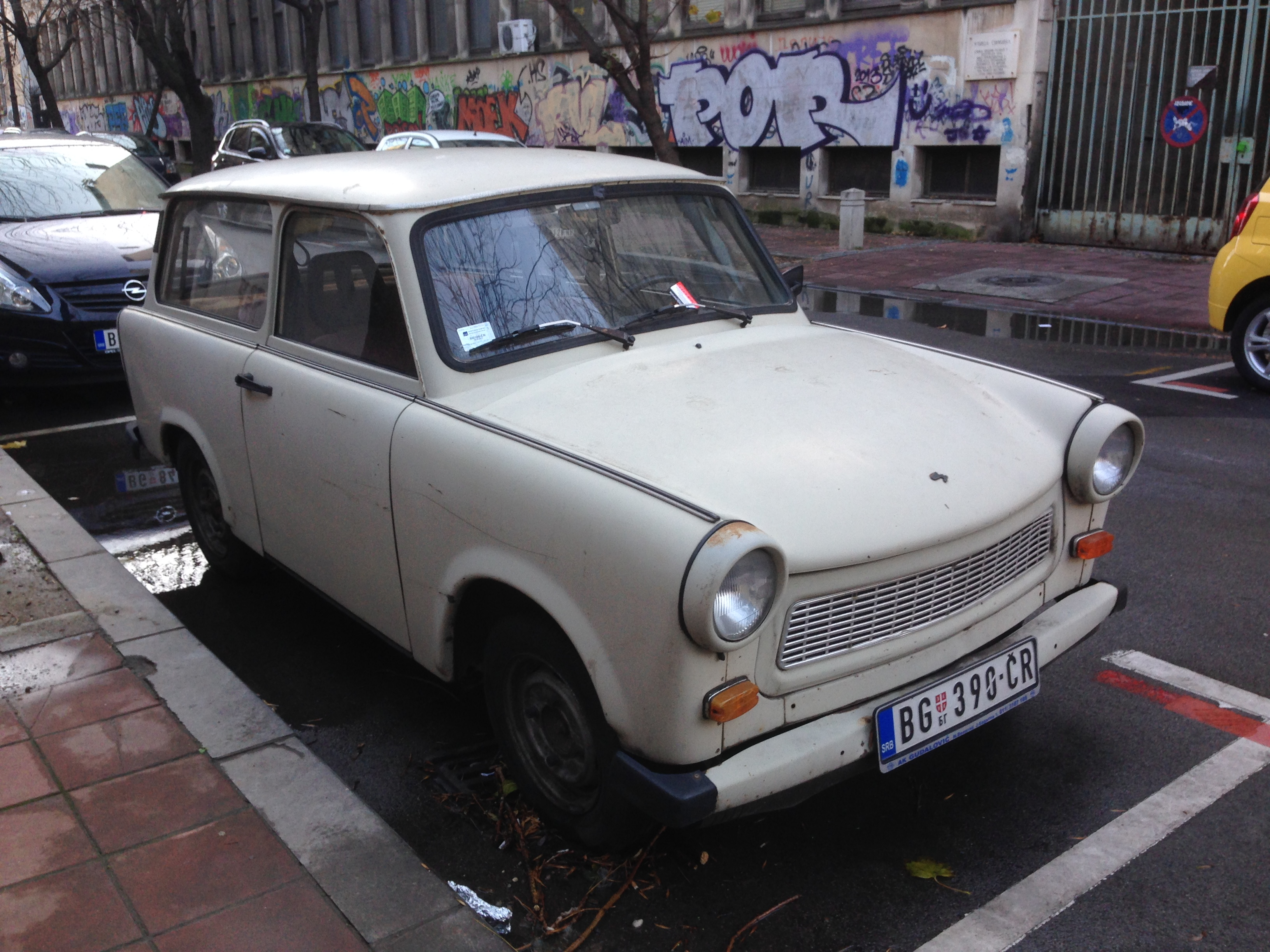 On the streets of Beograd